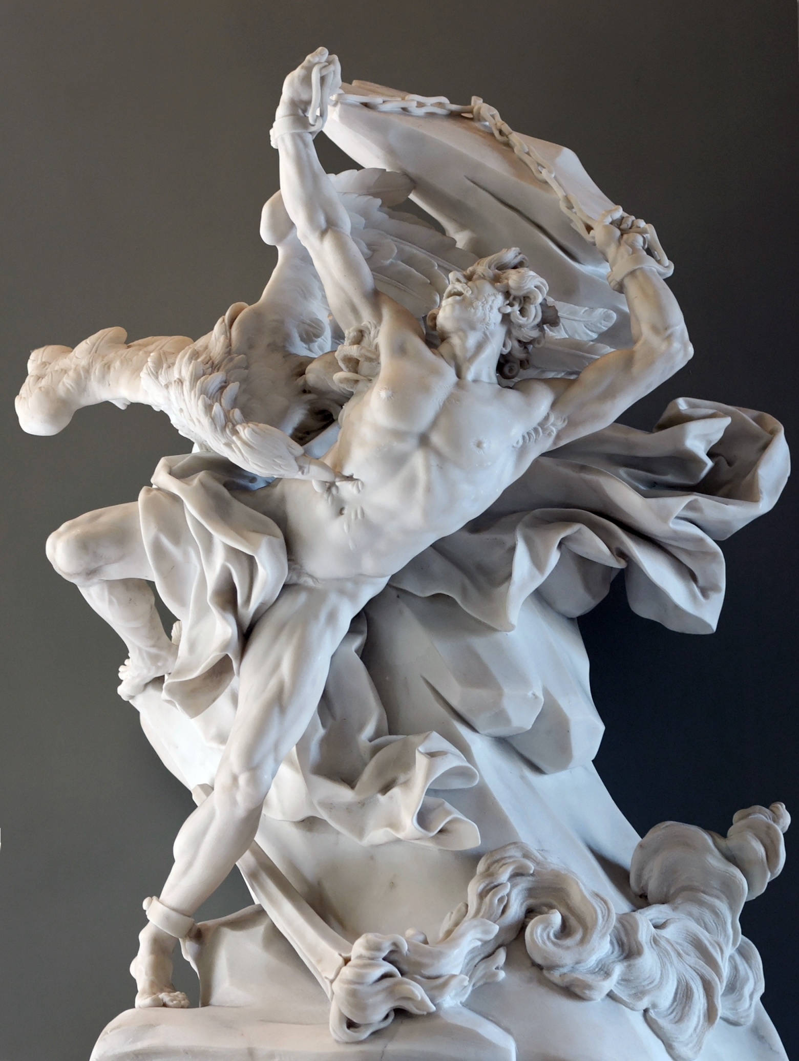 Prométhée enchaîné (Prometheus bound). Marble, reception piece for the French Royal Academy, 1762.